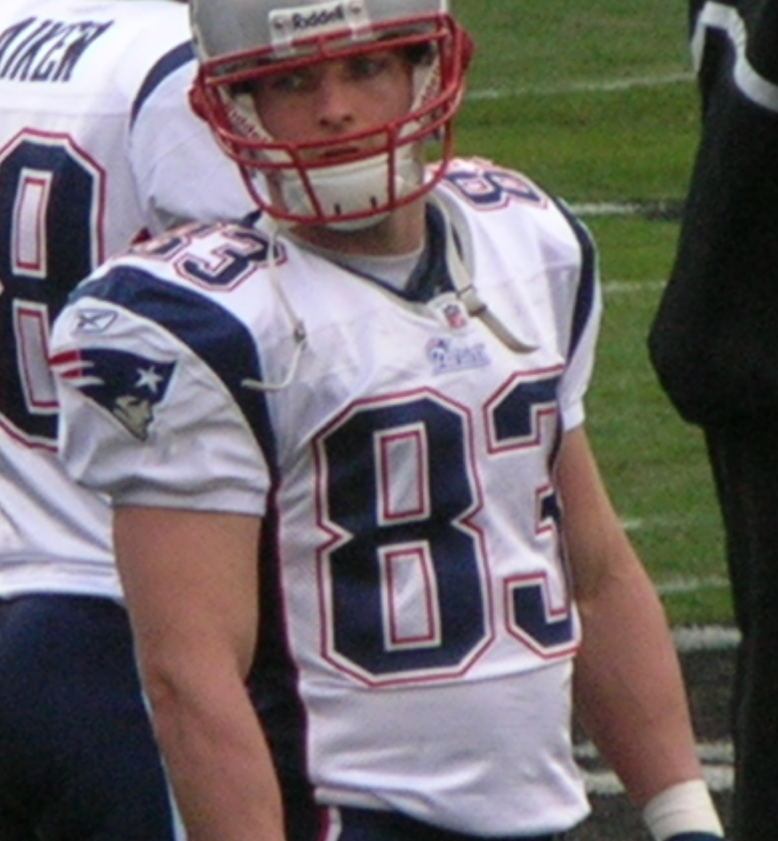 New England Patriots wide receiver Wes Welker on the field prior to an away game against the Oakland Raiders. The Patriots won 49-26.